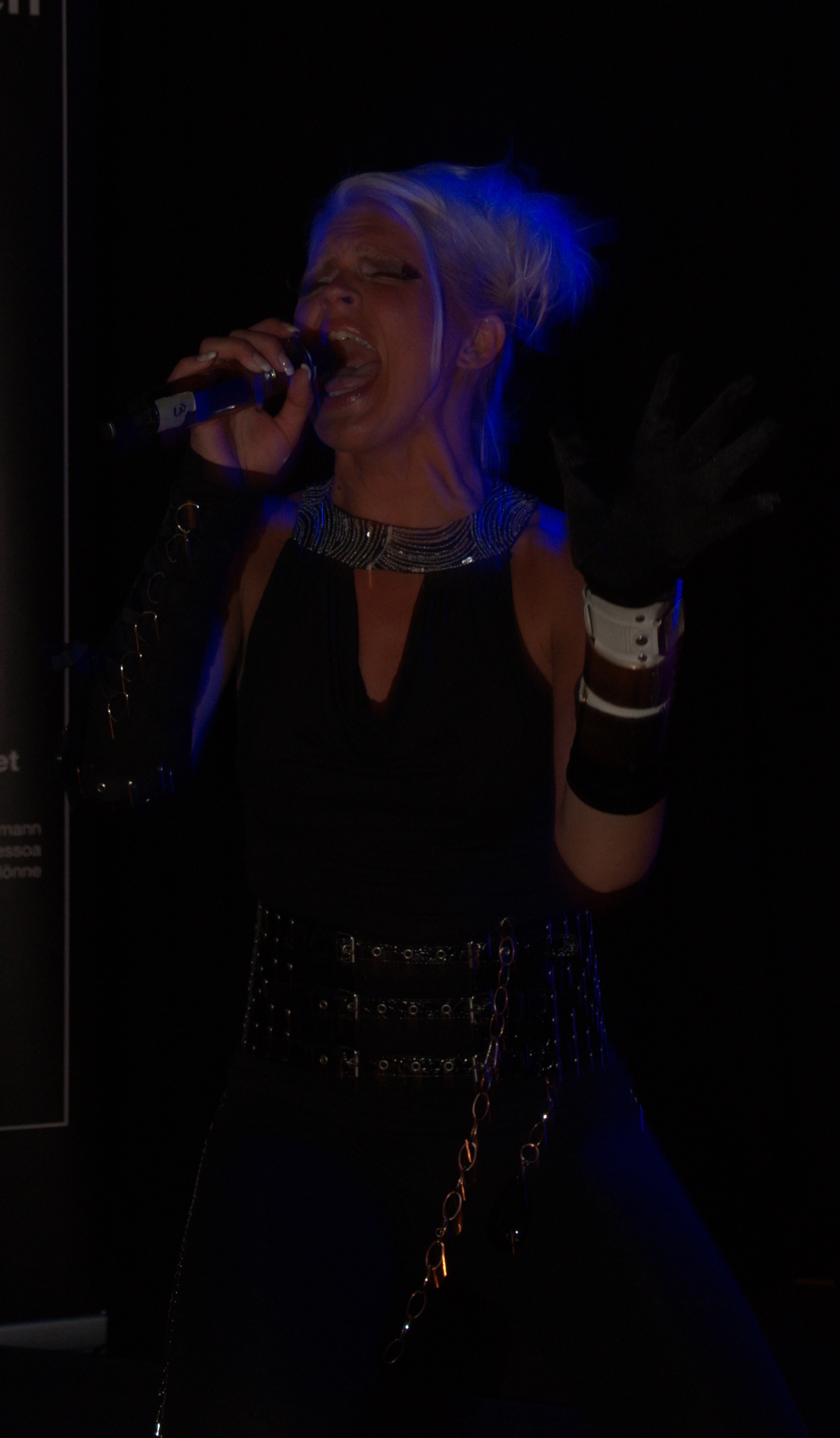 May Qwinten performing at Falsterbo Horse show in Falsterbo, Sweden in July 2010.